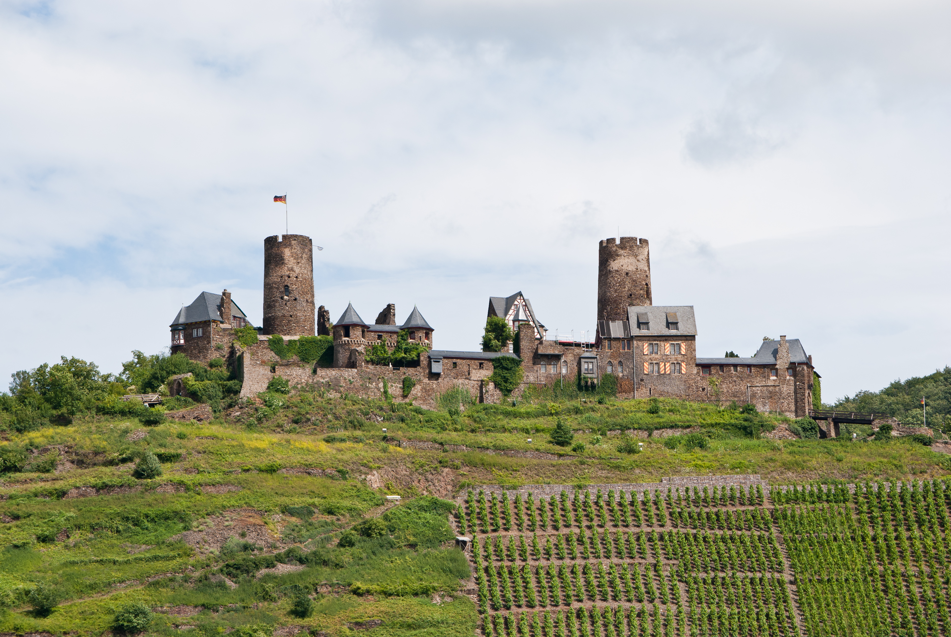 This photograph was taken with a Nikon D3000 This is a photograph of an architectural monument. Alken, Burg Thurant